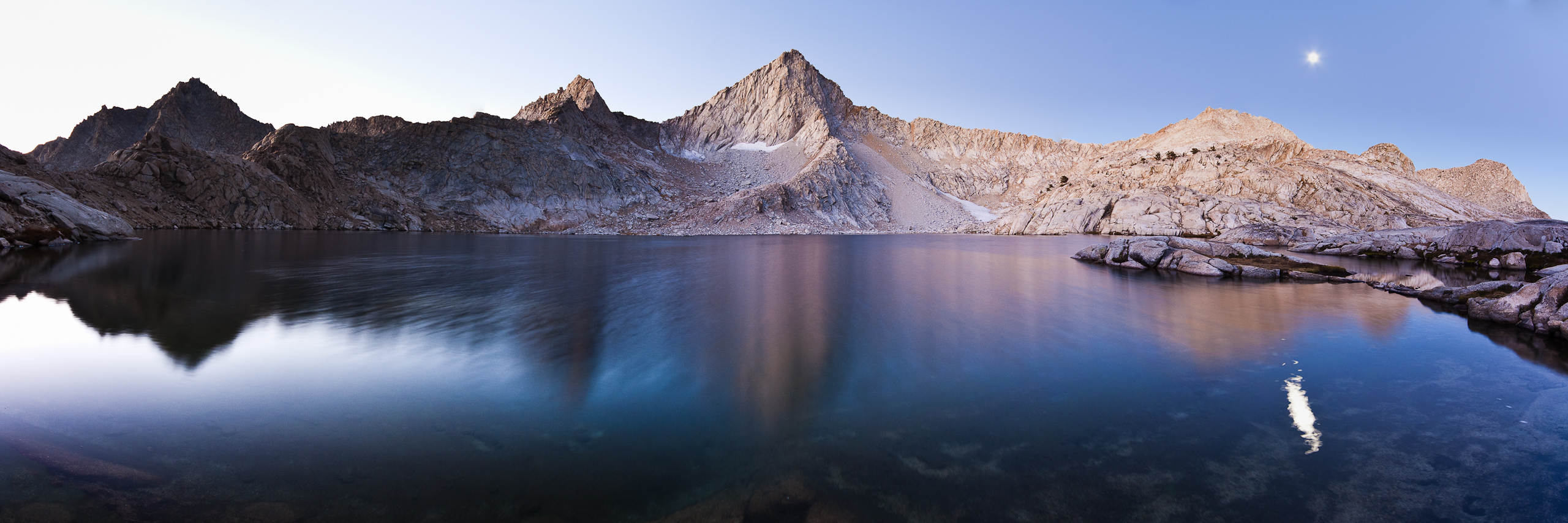 Early morning at Columbine Lake, Sequoia National Park, California